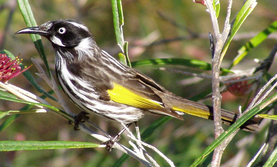 Description: New Holland Honeyeater (Phylidonyris novaehollandiae) in a Grevillea asplenifolia bush Location: Australian National Botanic Gardens, Canberra, Australian Capital Territory, Australia Date: 2005-09-21 Source: picture taken by Danielle Langlois Licence: Released under GFDL and Creative Commons licenses by the photographer